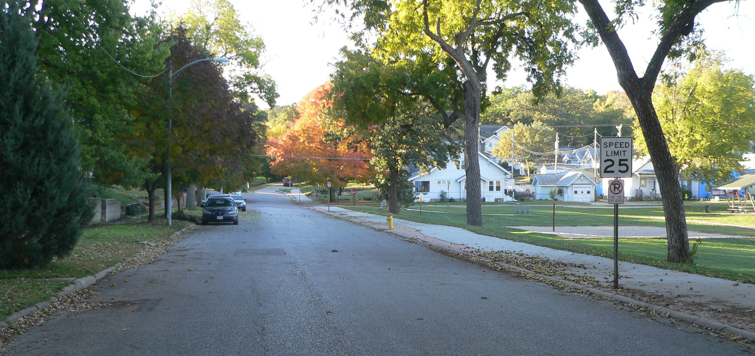 Turner Boulevard, looking southward from Leavenworth Street in Omaha, Nebraska. Leavenworth Park is at right (west).